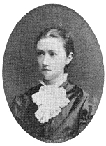 Portrait of a young Agnes Pockels, pioneer in surface science